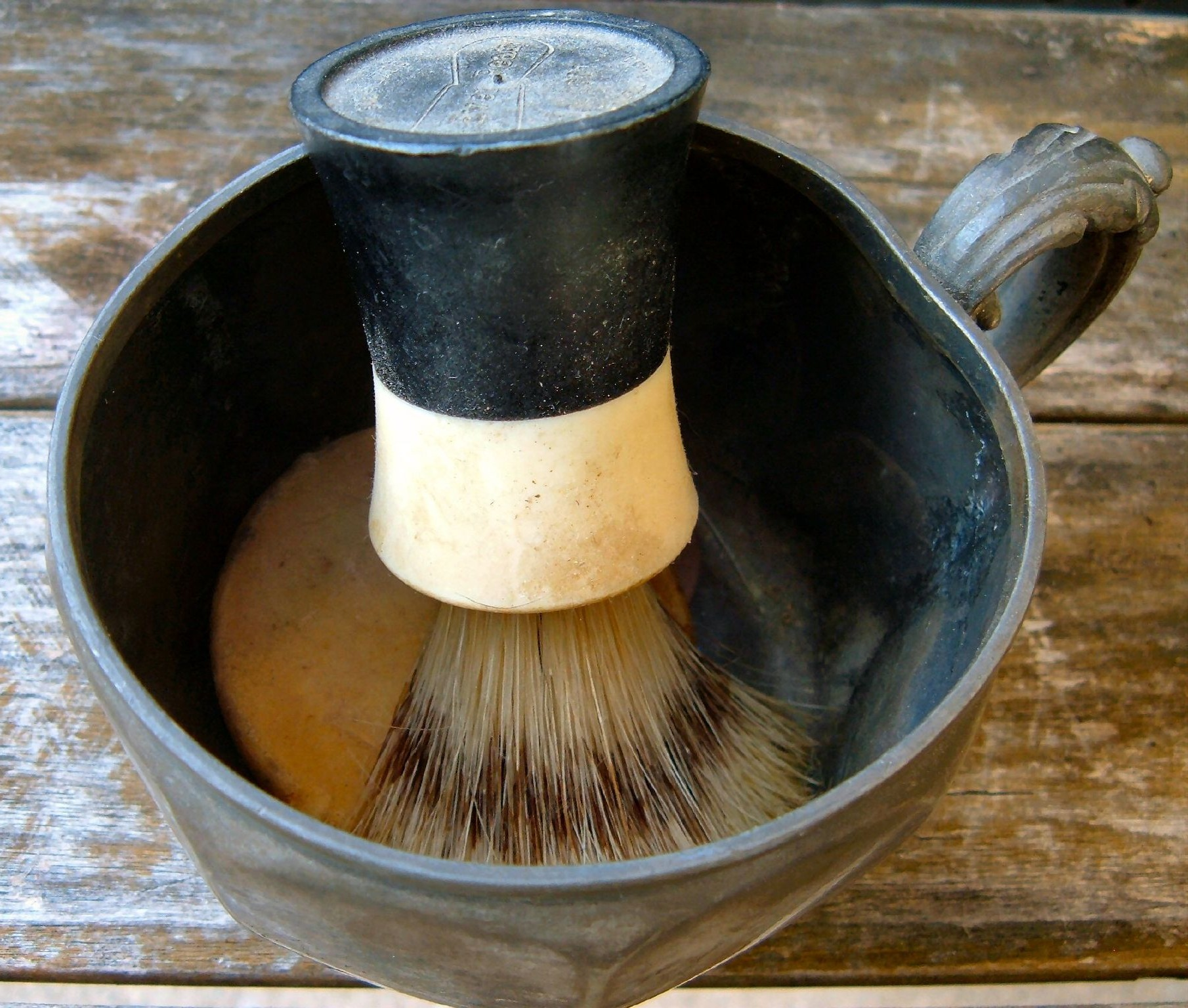 Shaving mug of someones great grandfather